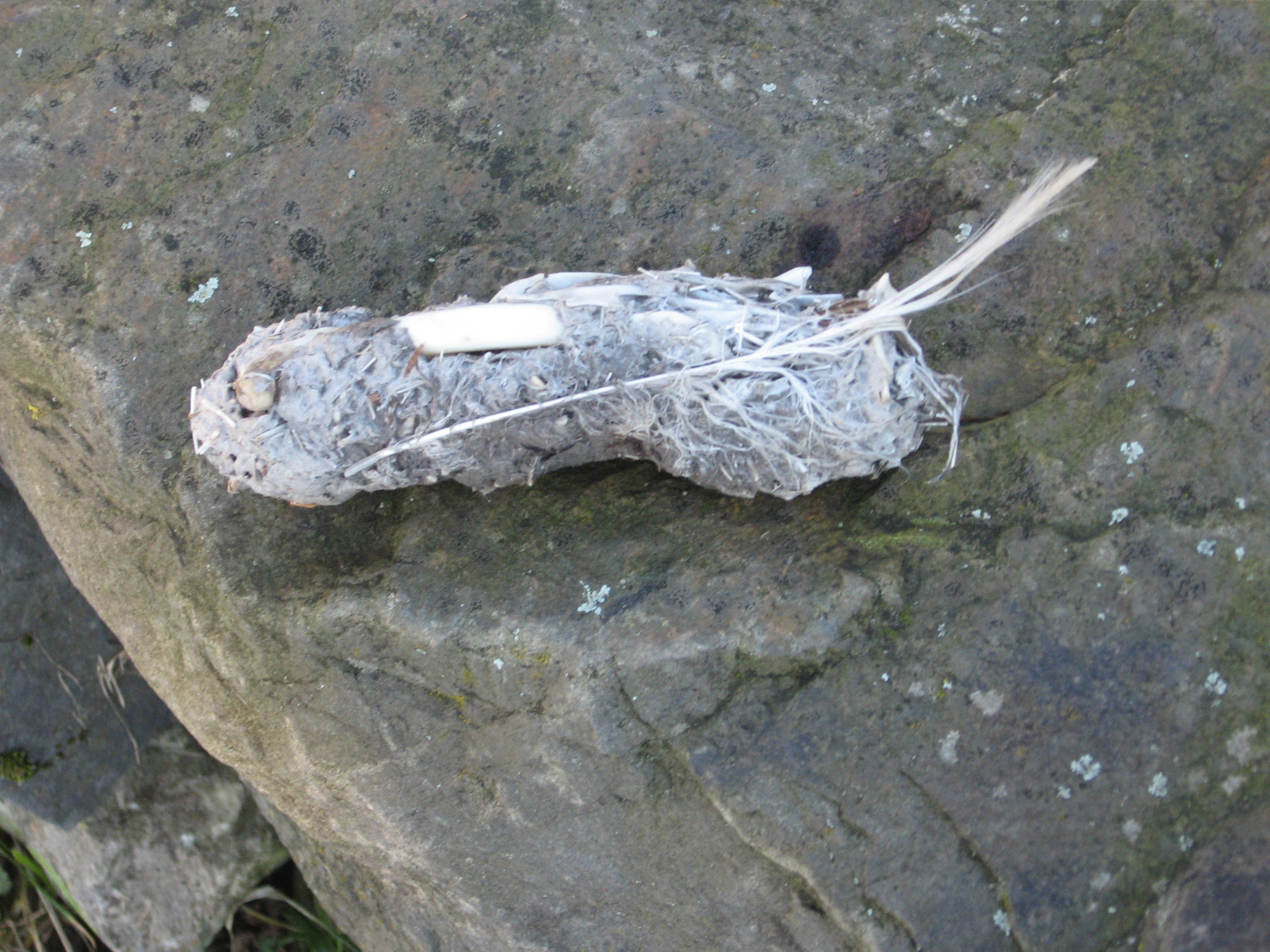 Older Eagle Owl pellet (11.7 cm without feather) in a nature reserve, Marsberg, Sauerland, Germany.